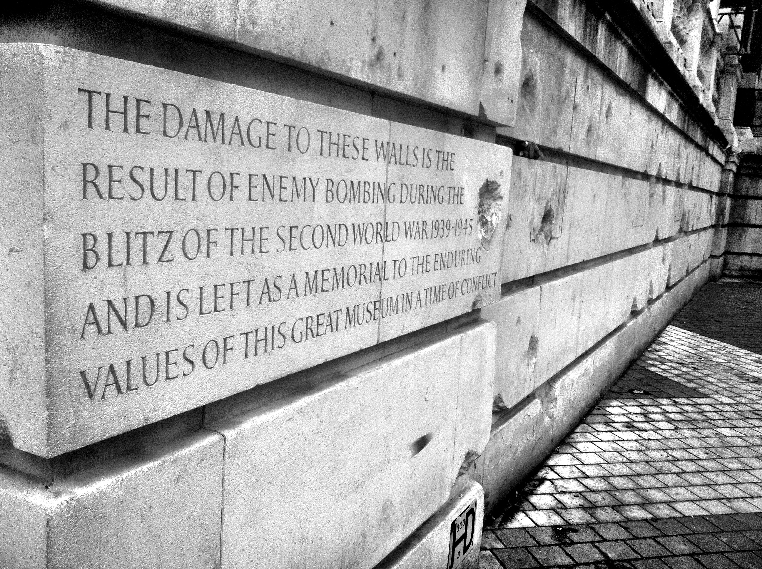 Bomb damage outside the Victoria and Albert Museum, London. Inscription reads: The damage to these walls is result of enemy bombing during the blitz of the second world war 1939-1945 and is left as a memorial to the enduring values of this great museum in a time of conflict.